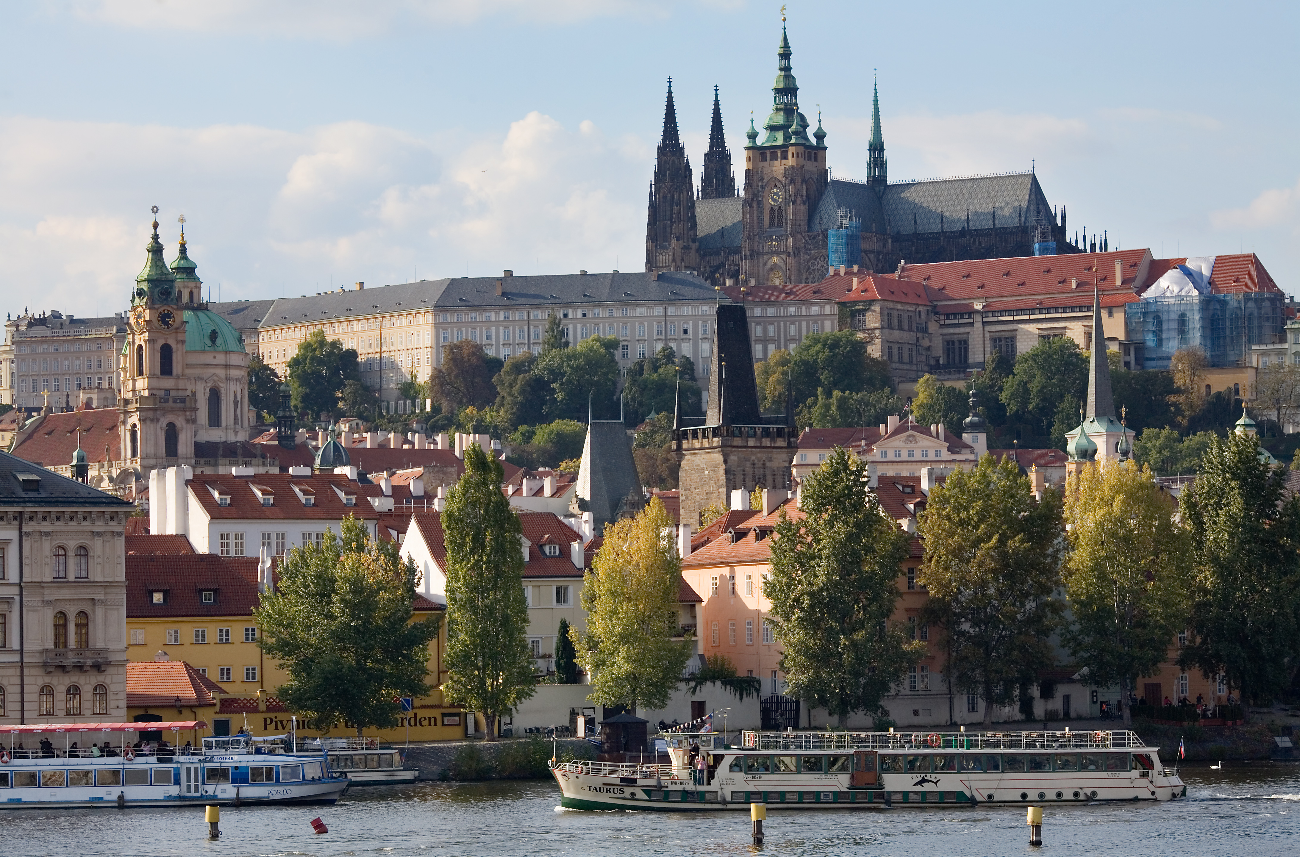 The Castle and Charles Bridge, Prague, Czech Republic